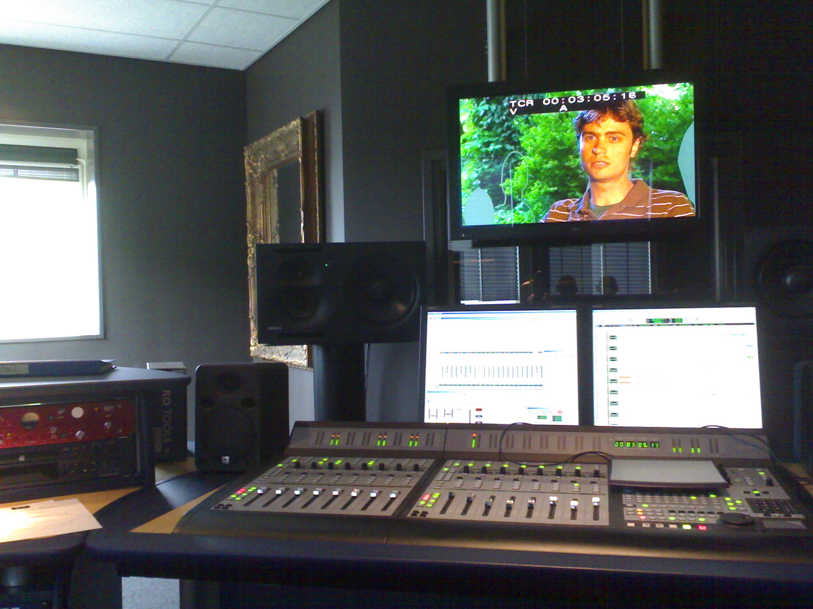 Another nice ProControl setup with indeed Protools HD and a Focusrite 7